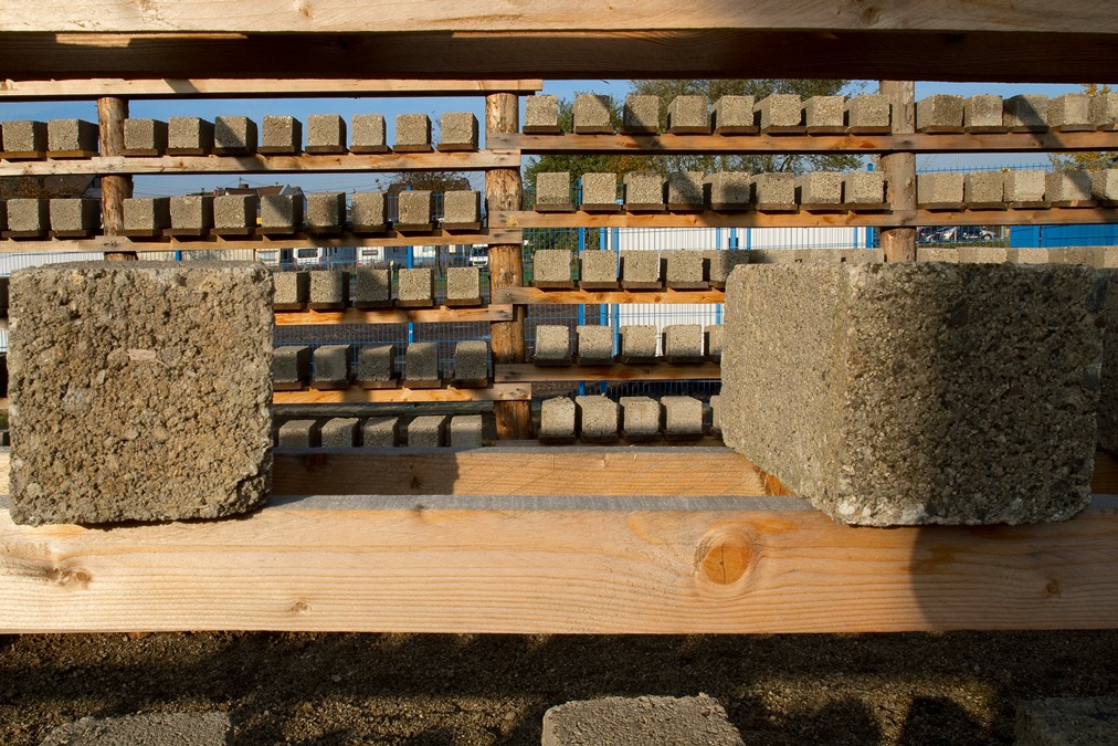 Museum der Bimsindustrie, Bimssteine auf Arken